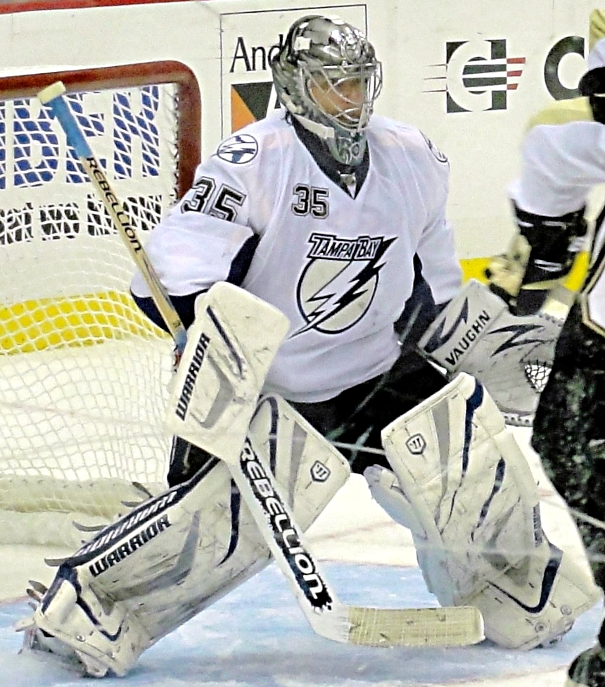 Tampa Bay Lightning goaltender Dwayne Roloson during Game 5 of the first round of the playoffs against the Pittsburgh Penguins, April 23, 2015 at Consol Energy Center in Pittsburgh, PA.